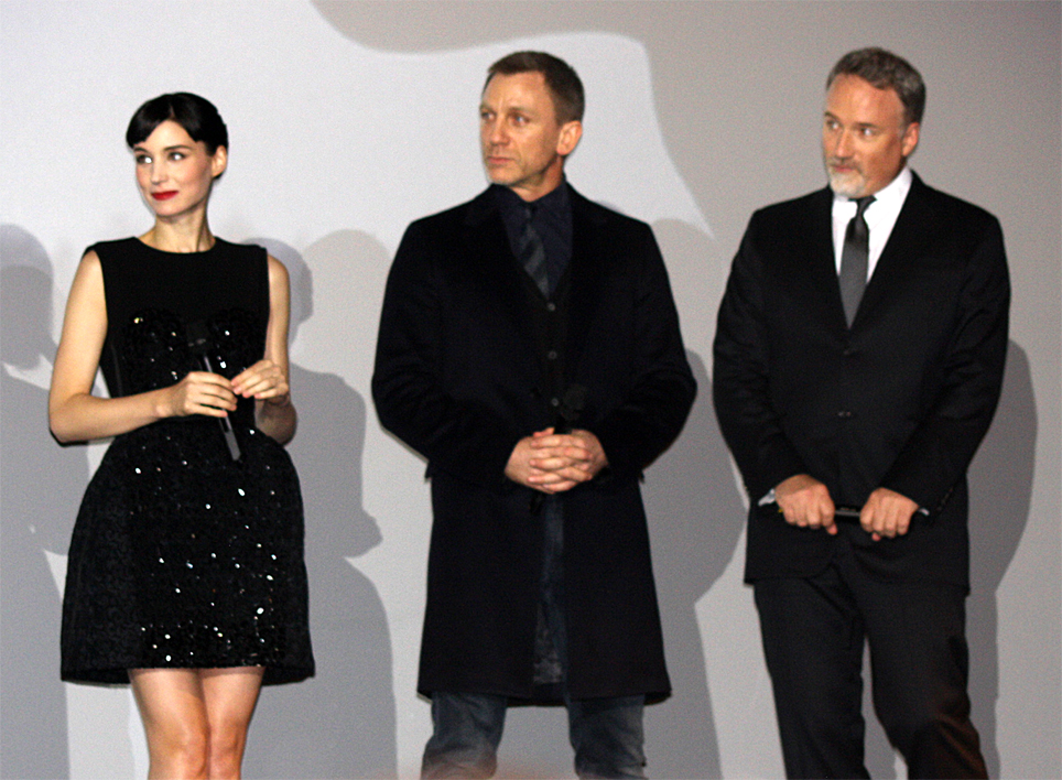 Rooney Mara, Daniel Craig and David Fincher at the Paris premiere of their film The Girl with the Dragon Tattoo